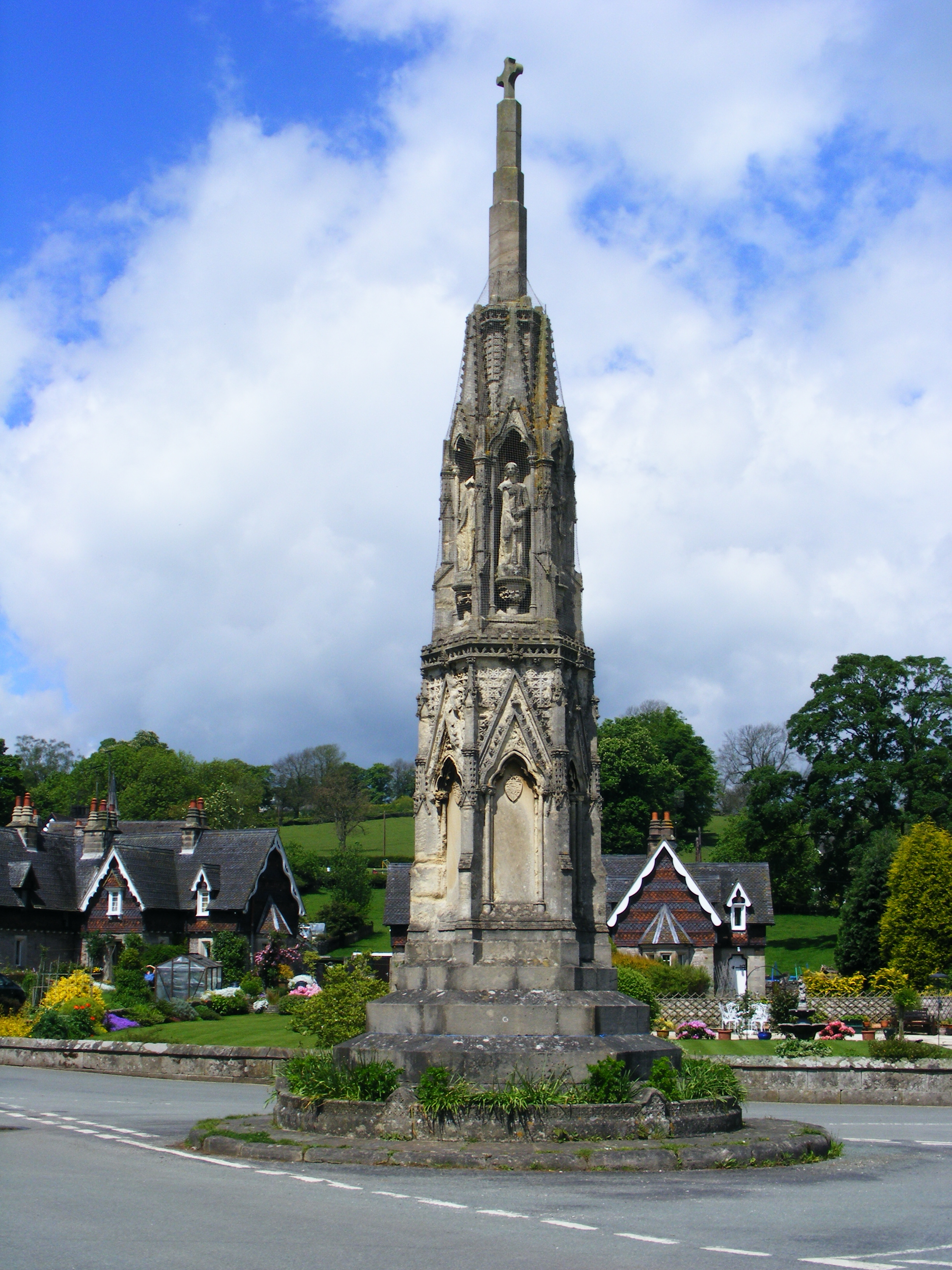 Ilam Cross. This notable monument is crumbling, and is now (May 2009) subject to a proposal for restoration.